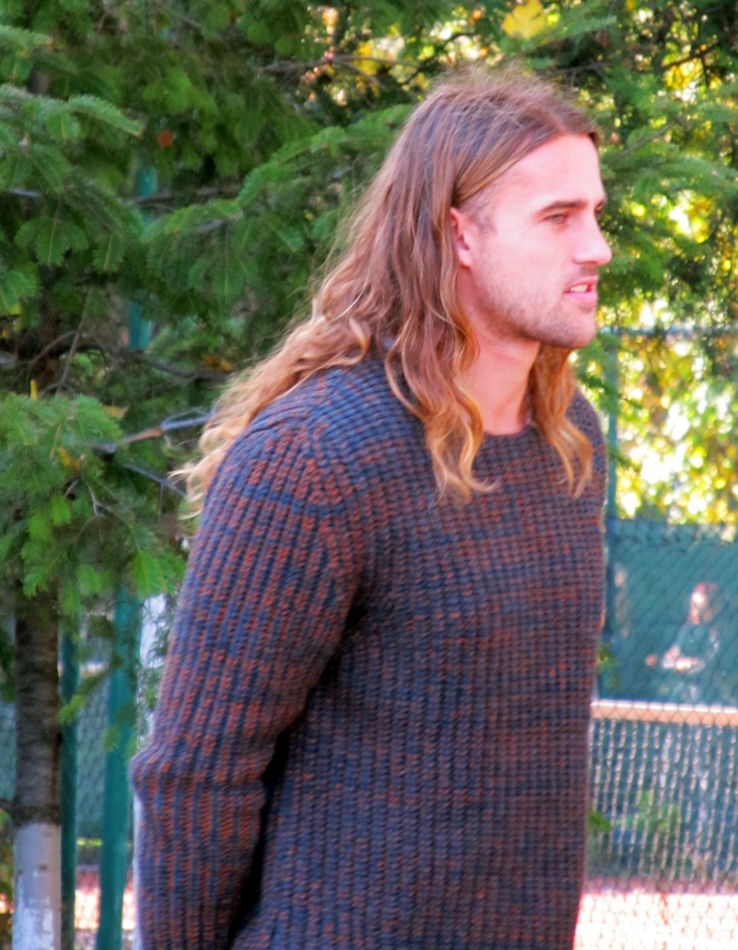 English born Romanian International Rugby Union player Jack Cobden attending a match between his team, CSM București , and rivals CSM Baia Mare.